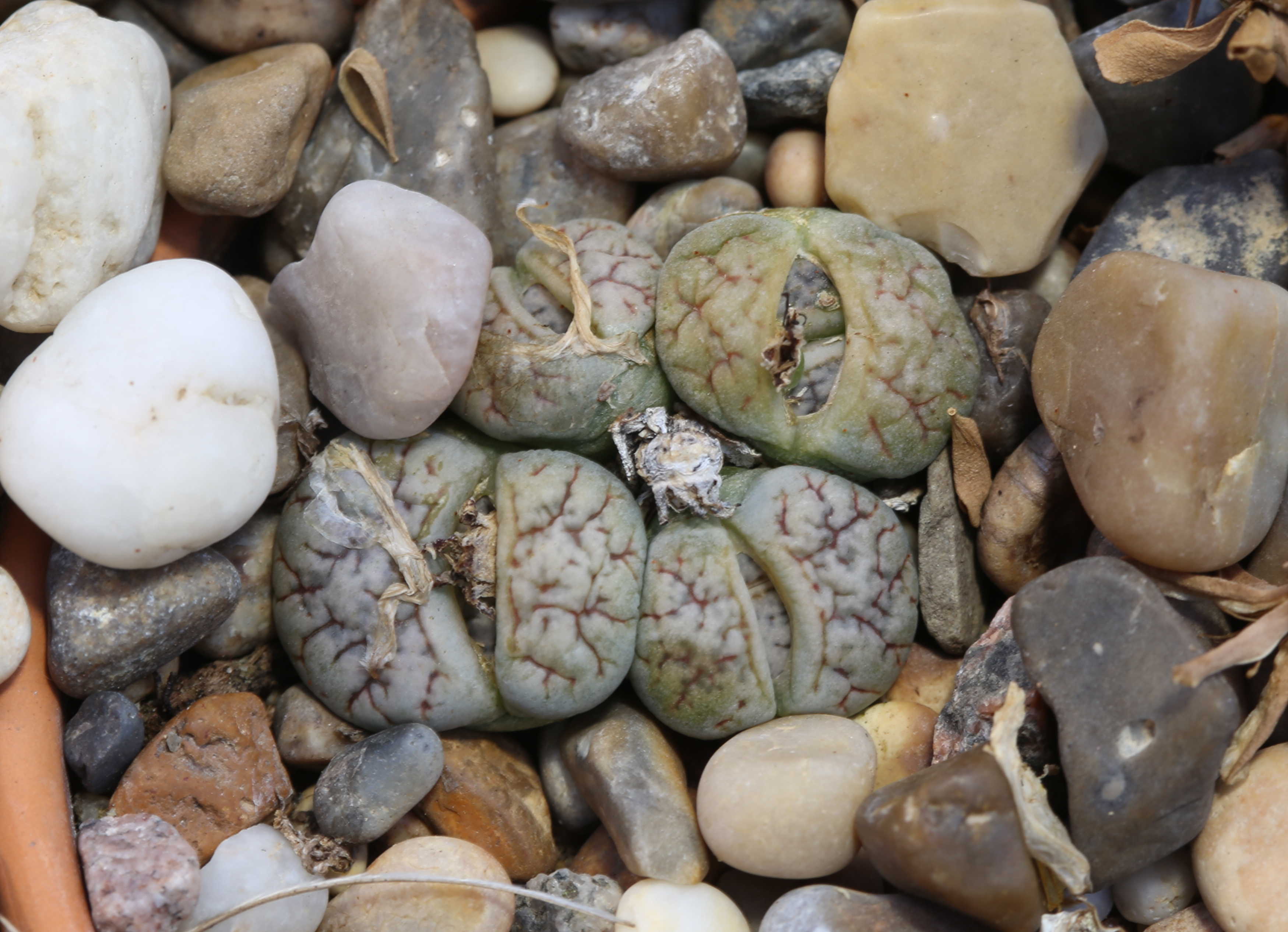 Lithops werneri at Gothenburg Botanical Garden 2015. Plant id: 2012-1462 p Z -- Haage Ka.; C188